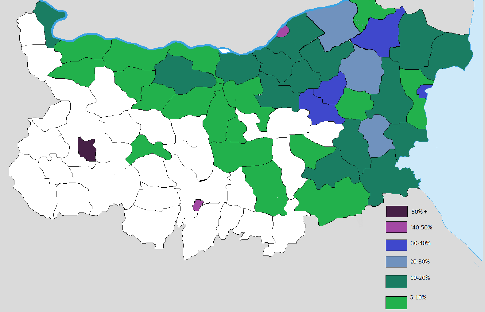 Percentage of ethnic Bulgarians born in a different municipality calculated from the total of the ethnic Bulgarians according to the 1910 census. Map adapted from File:BG Okolii.png